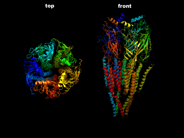 Top and front view to the 3D structure of the pentameric nicotinic acetylcholine receptor. Created by S. Jähnichen using PyMol Derived from the published structure (source: RCSB PDB Database PDB ID: 2BG9 from Unwin, N. (2005). Refined Structure of the Nicotinic Acetylcholine Receptor at 4A Resolution. J. Mol. Biol. 346:967.